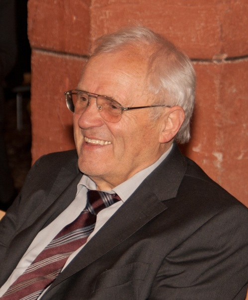 Picture of Bernhard Oswald